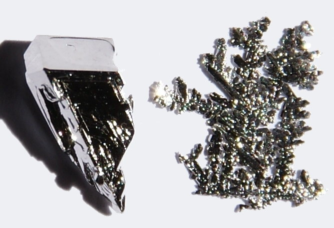 Two ultrapure platinum crystals, each 1 cm big, together about 1 gram.